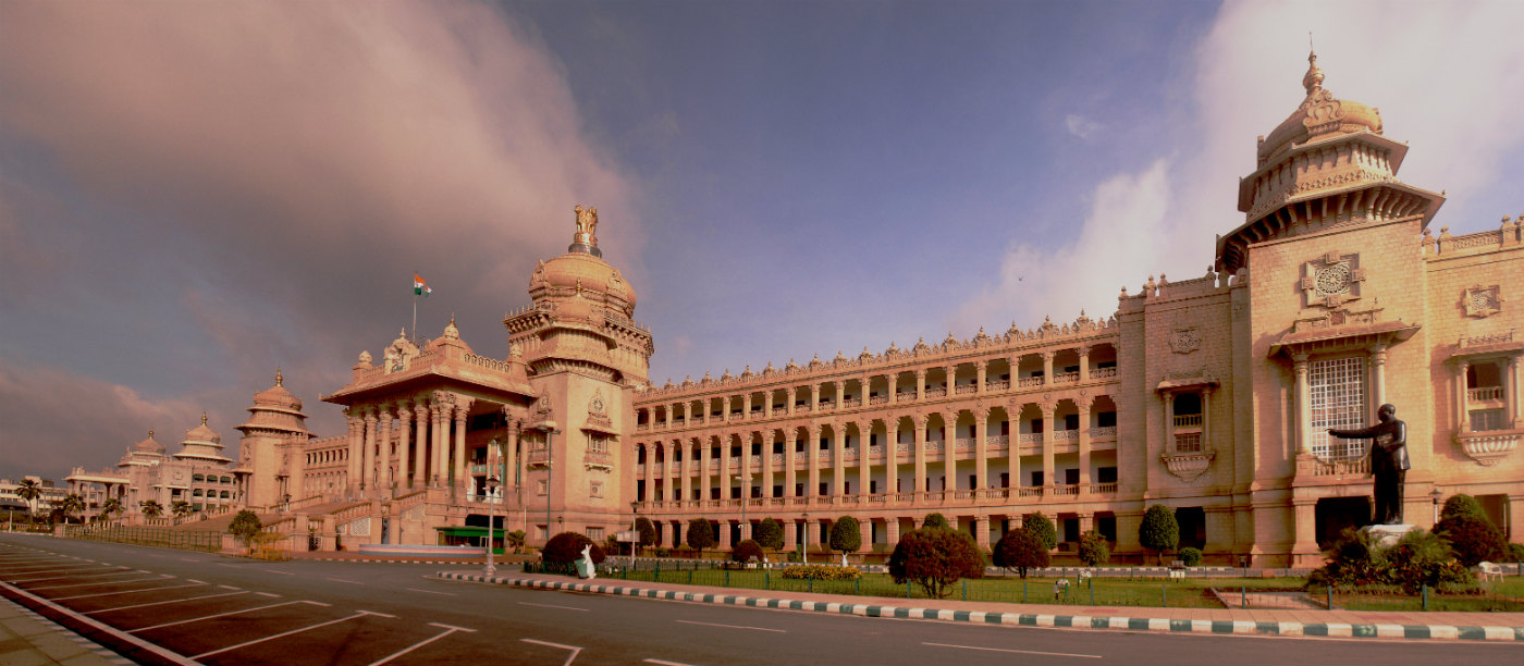 Vidhana Soudha, Bangalore